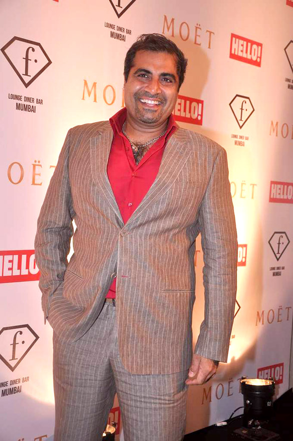 Shailendra Singh graces the Moet N Chandon bash at F bar